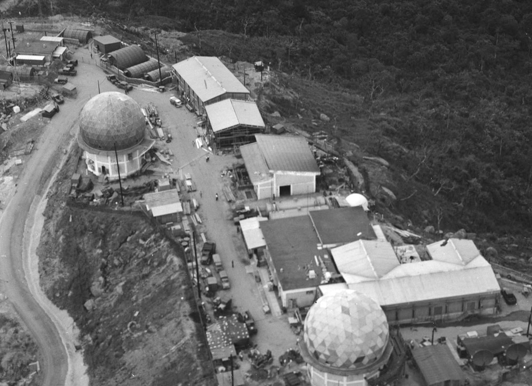 The U.S. Air Force had two ground-based signals intelligence intercept sites at Da Nang, South Vietnam -- one at the air base and another, pictured here, on nearby “Monkey Mountain” (Sơn Trà Mountain).